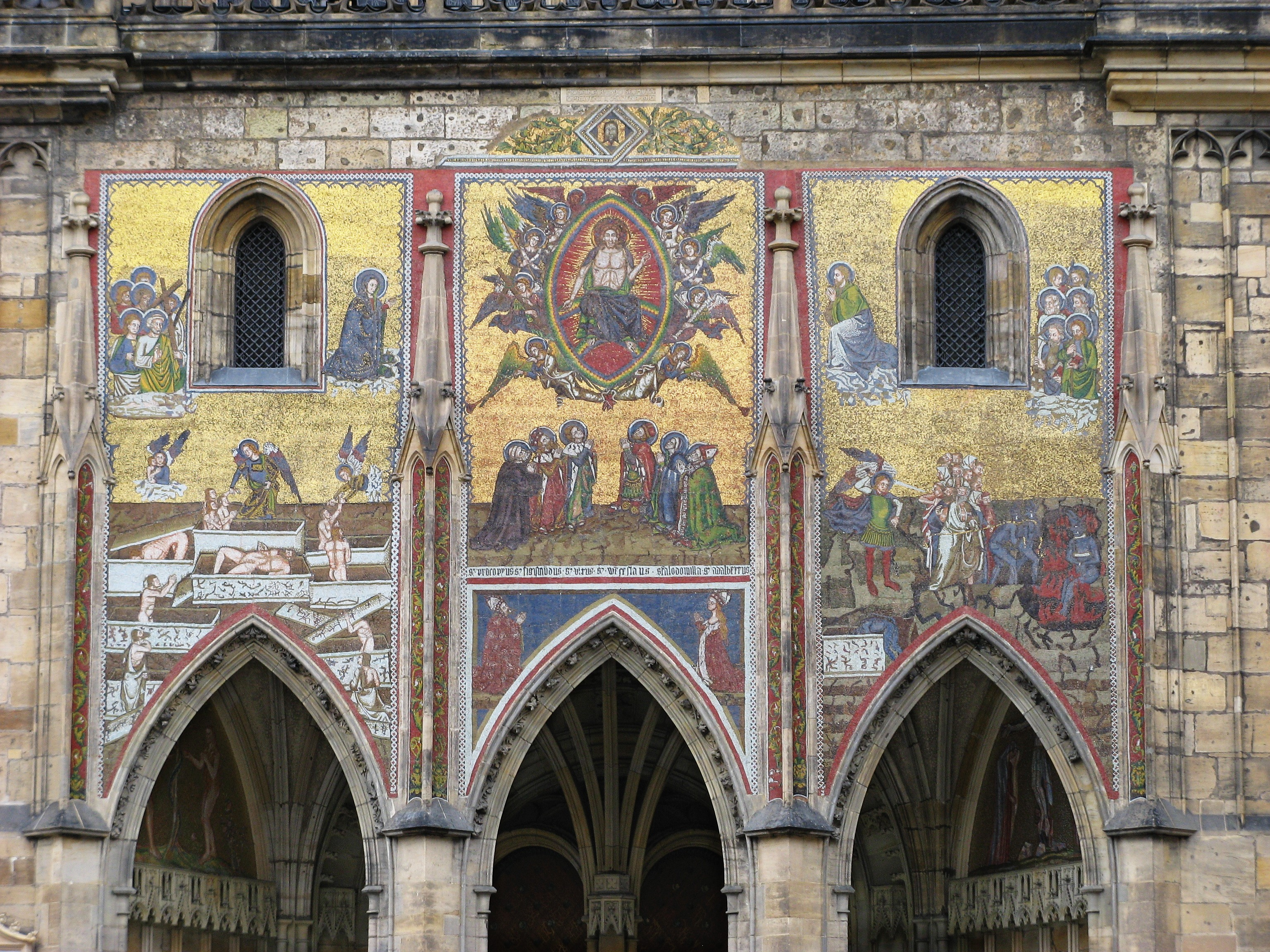 Mosaic Last Judgement (1370-1371) on the southern side of cathedral of st. Vitus in Prague